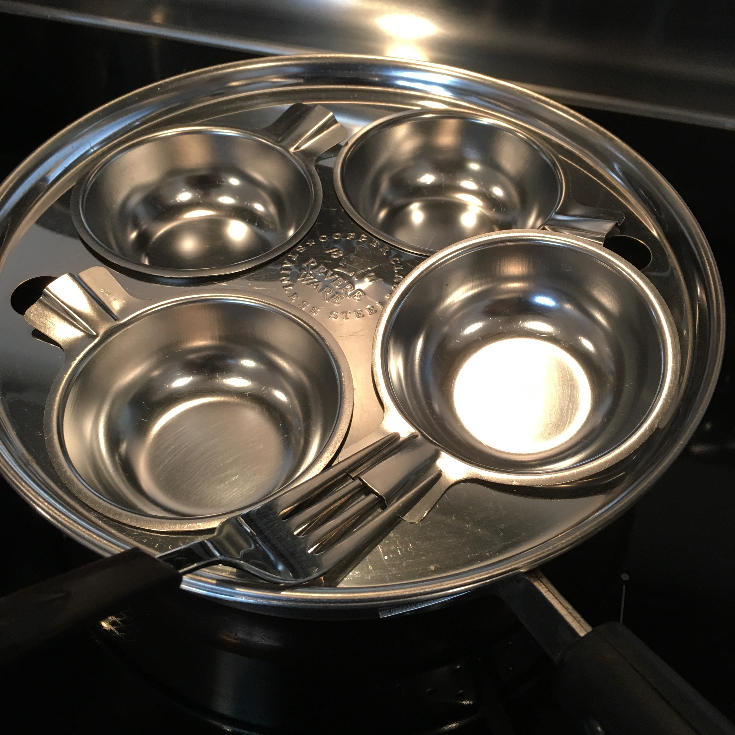 Revere manufactured two "Breakfast Unit" inserts for use in either eight or ten-inch Skillets. Any household fork slides into and locks in place for the safe removal of the hot poaching cups.